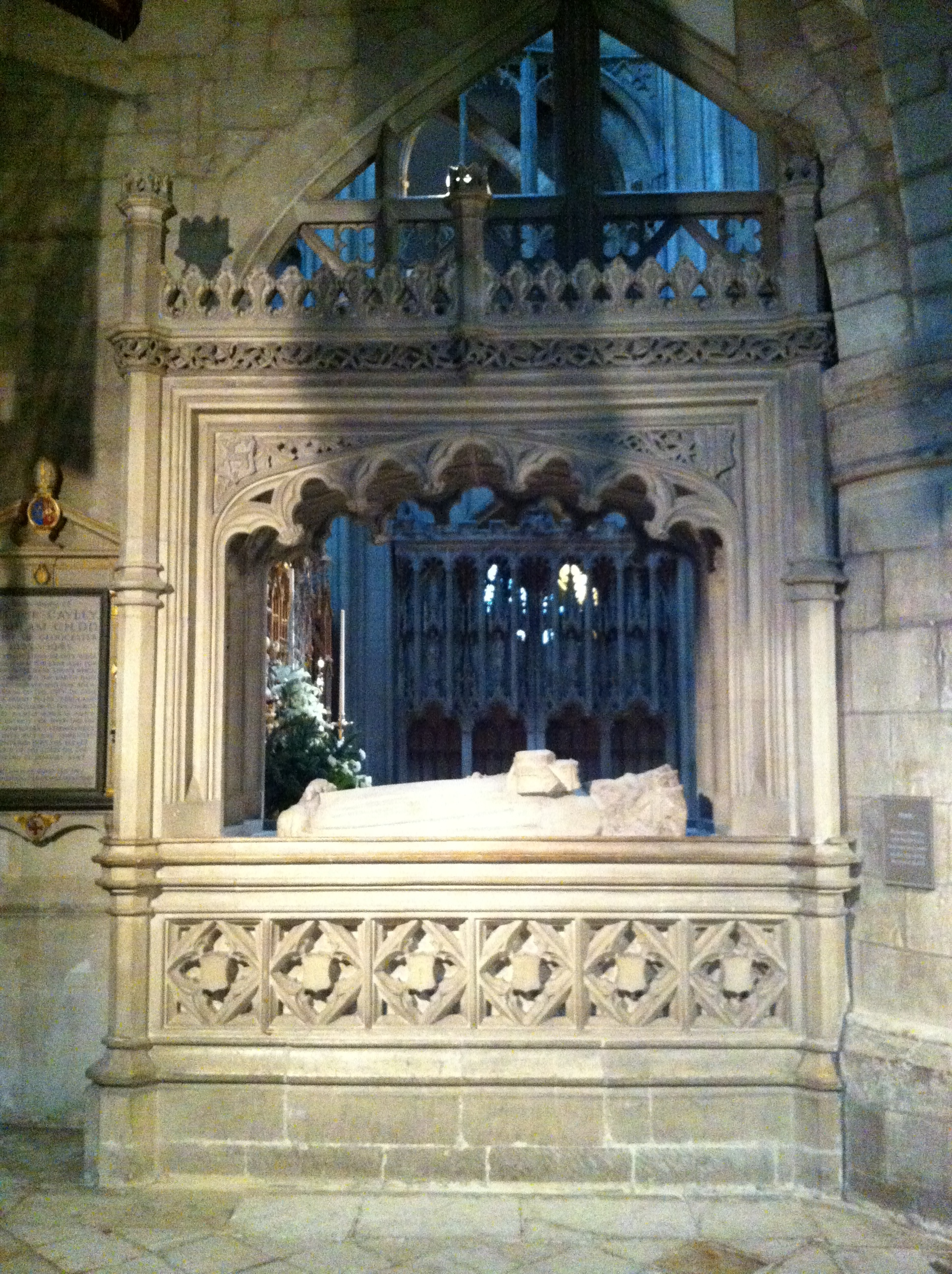 Osric, Prince of Mercia who founded the first monastic house on the site of Gloucester Cathedral during the year 678-679